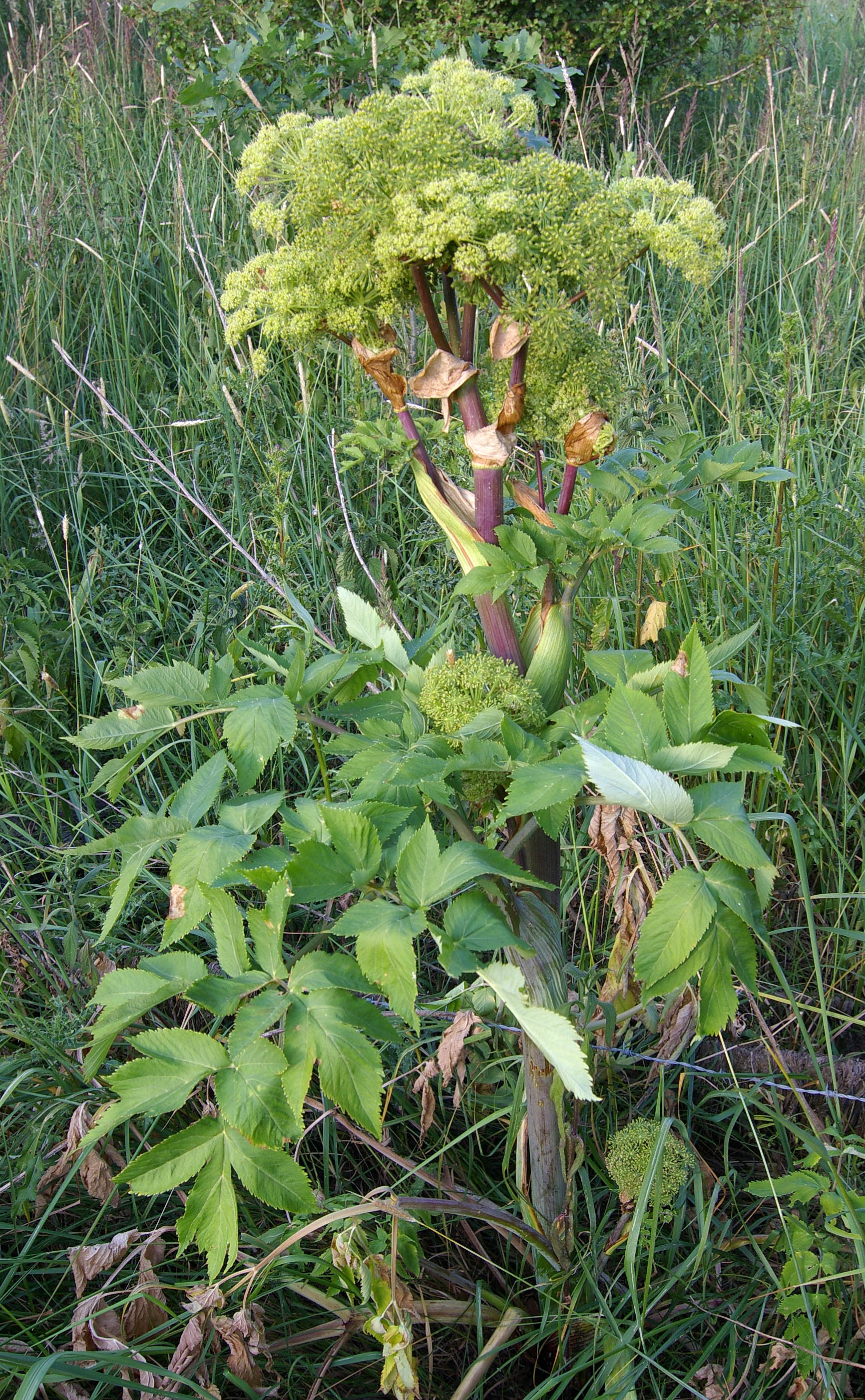 Habitus of flowering Angelica archangelica.